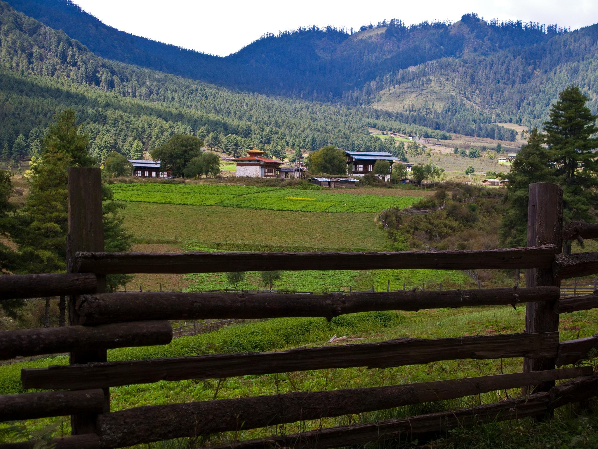 Phobjikha Valley view, Bhutan